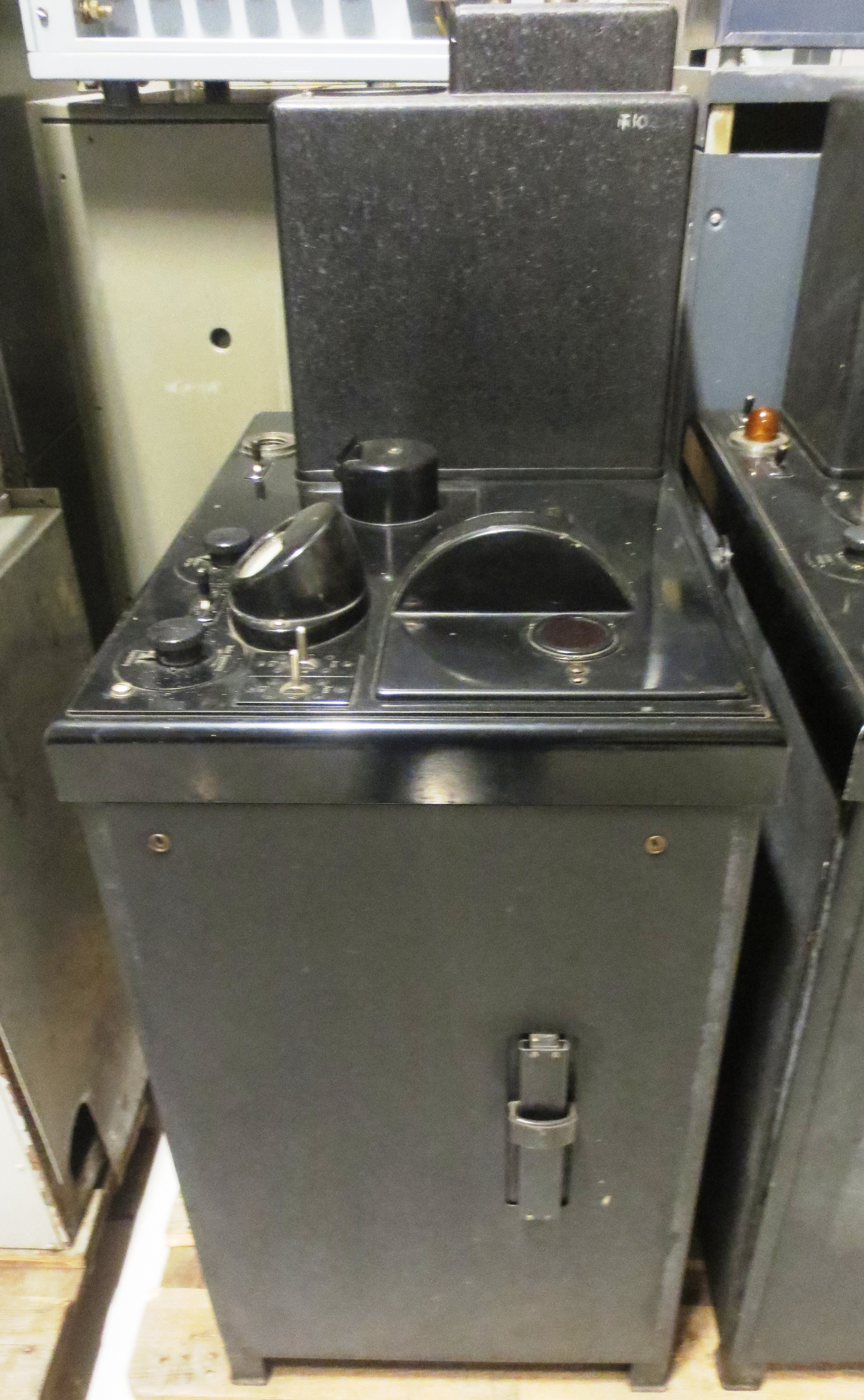 Facsimile transmitter from the 1940, an early generation device to send newspaper facsimiles and photo via radio. Telemuseet (Telecom Museum), Norway